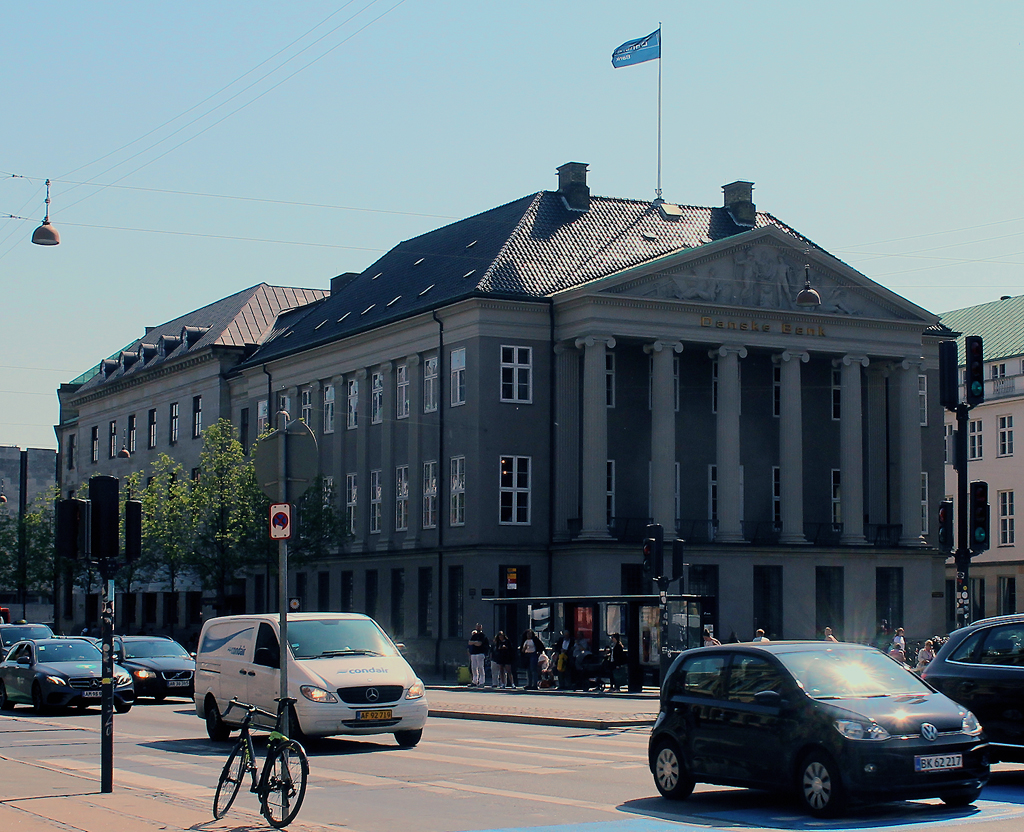 Headquarters of Danske Bank, located in the Erichsens Palace building in Copenhagen, Denmark.